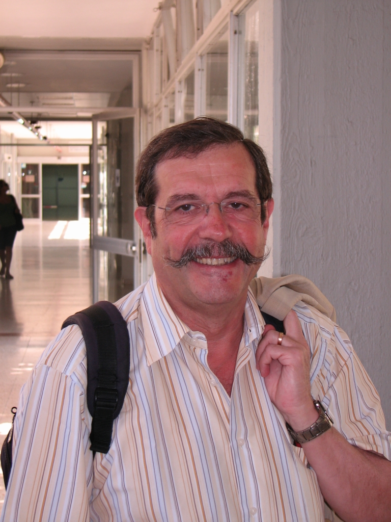 Alain Aspect on a visit to Tel Aviv University due to his awarding of the Wolf Prize in Physics.